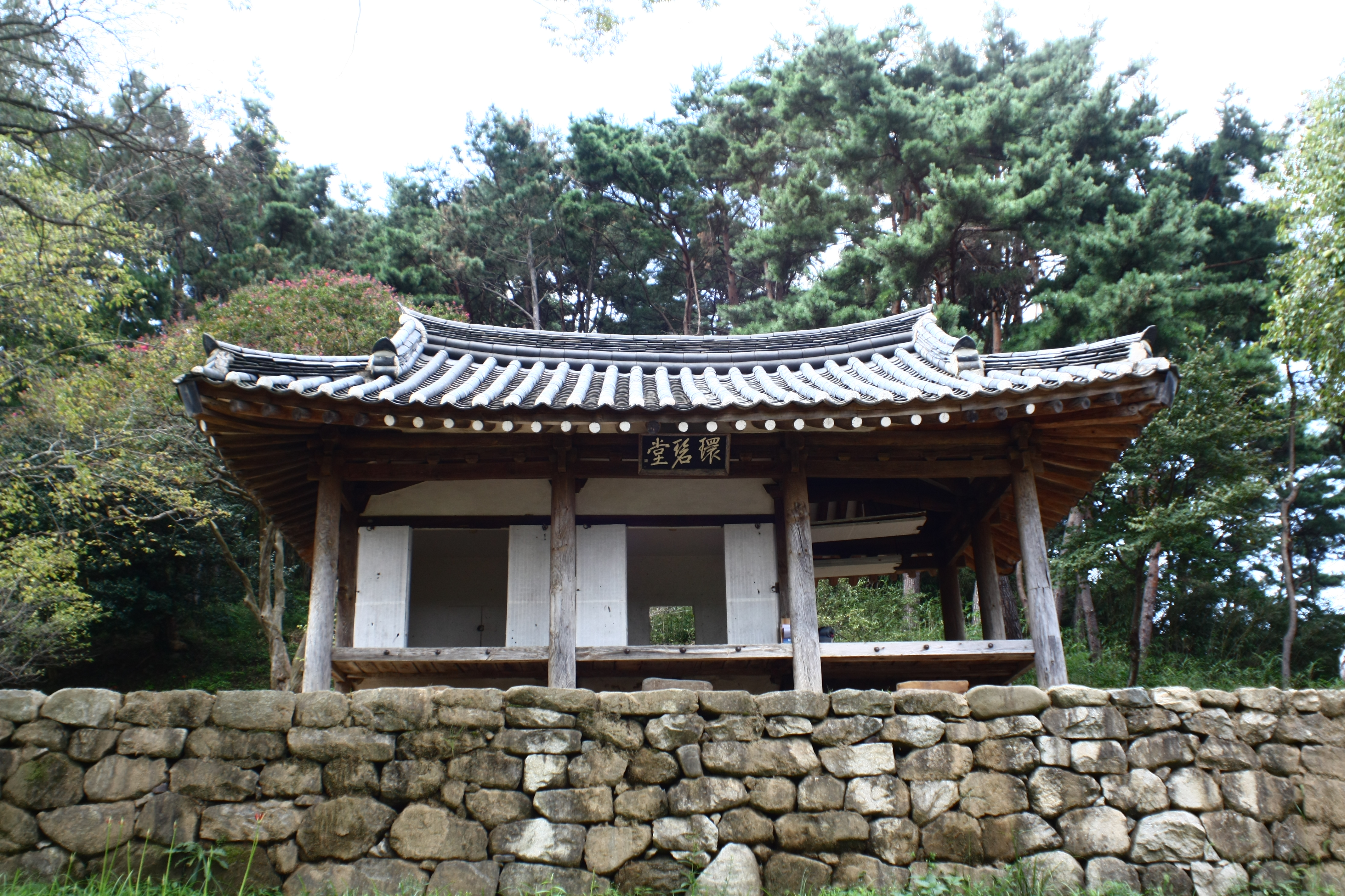 Hwanbyeokdang. A pavilion in Gwangju, South Korea